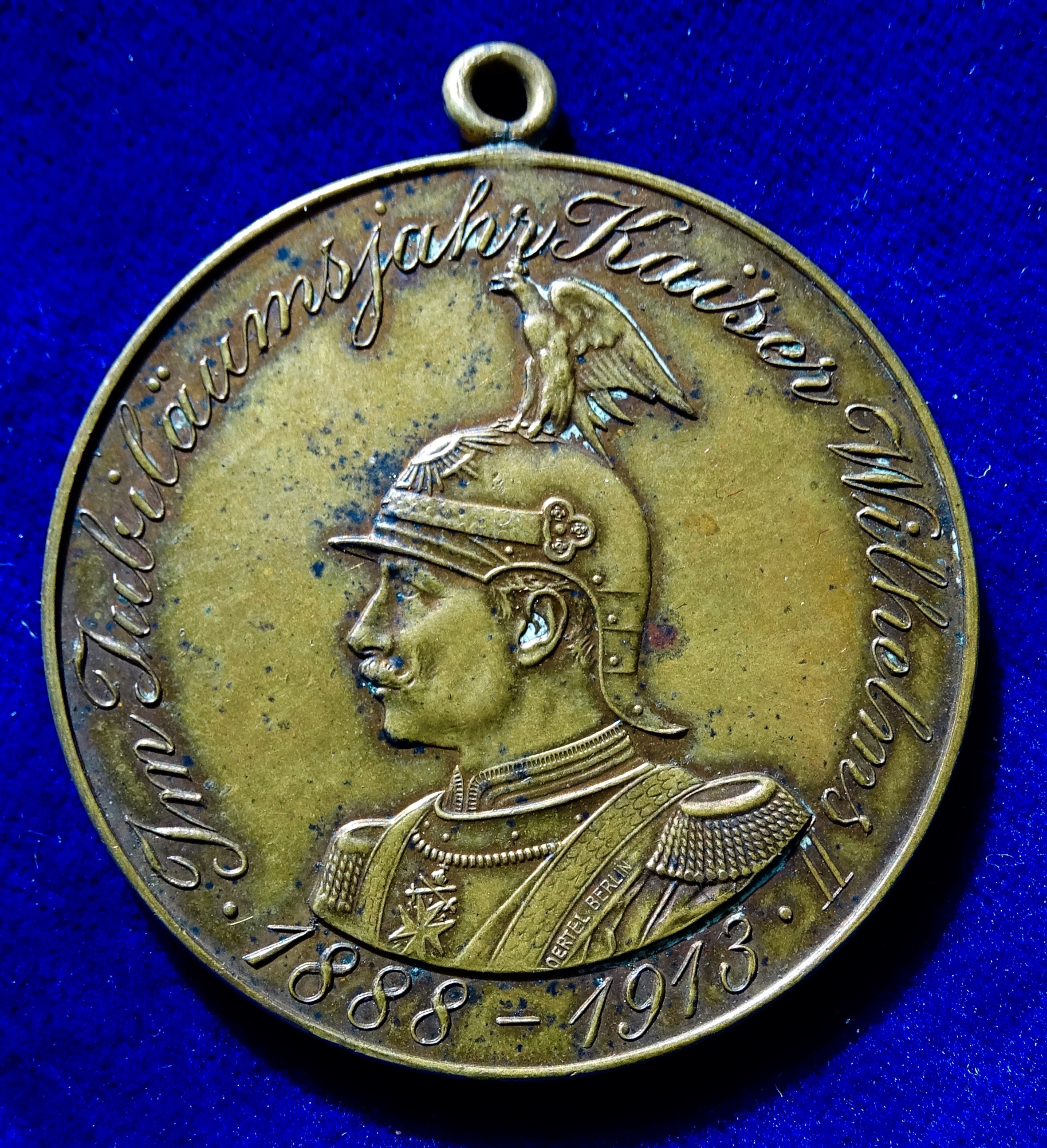 In the Battle of Großbeeren (23 August 1813) an allied Prussian-Swedish army under Crown Prince Charles John – formerly Marshal of France Jean-Baptiste Bernadotte – defeated the French under Marshal Oudinot. Bronze medal for the inauguration of the memorial tower for the 100th anniversary of that battle. D.= 46 mm. Wilhelm II, German Emperor, King of Prussia, 1888-1918 Portrait in uniform l., around: "Im Jubiläumsjahr Kaiser Wilhelms · 1888 - 1913 ·"/The Art Nouveau monument dividing the date "23 Aug. 1813", around: "100. Jährig. Jubel·Fest d. Schlacht b. Großbeeren". Mint: (Otto) Oertel Berlin Condition: EXTREMELY FINE+, little tarnish.